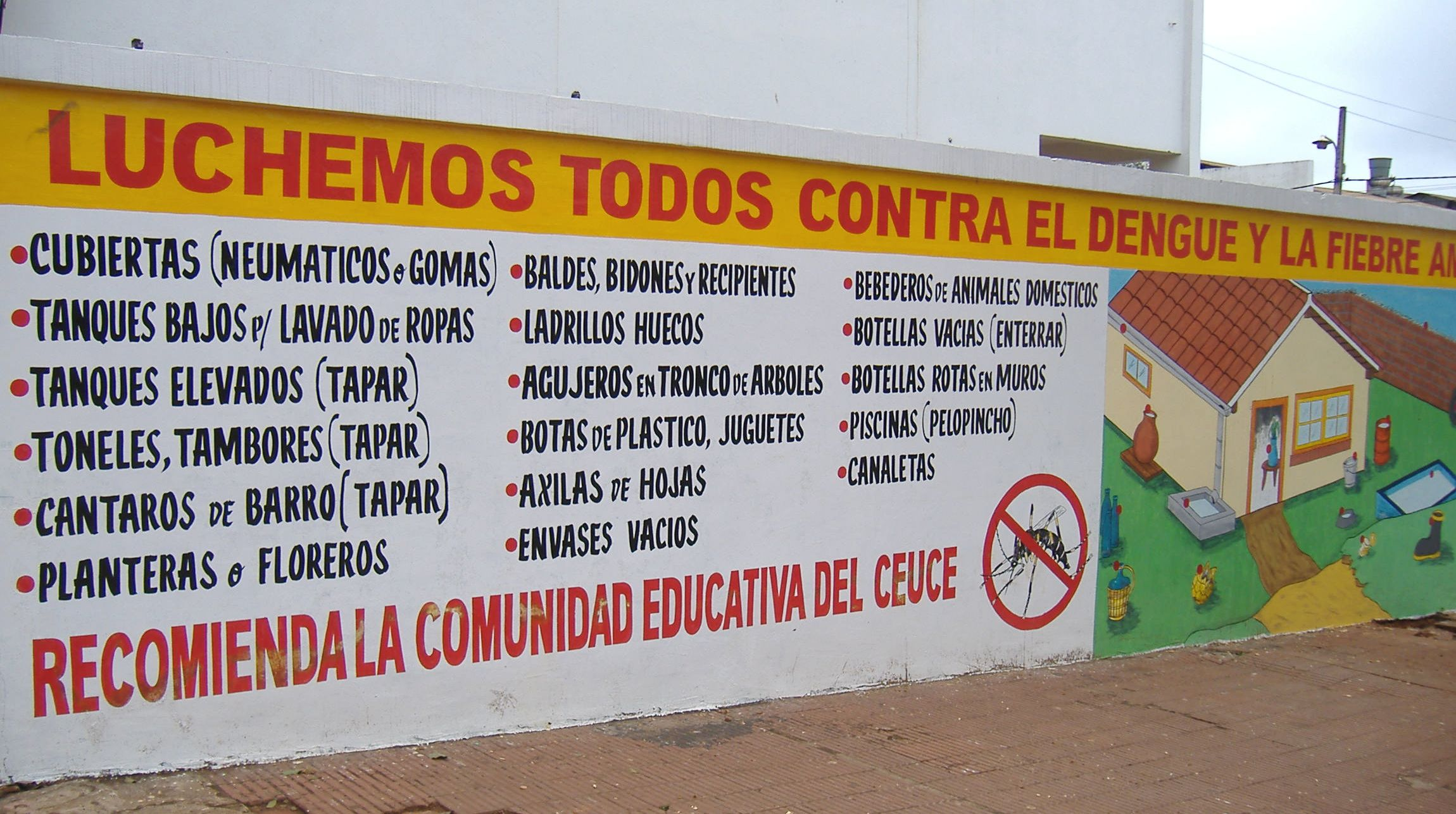 A public service campaign teaching people measures to prevent dengue fever and yellow fever, in Encarnación, Paraguay.